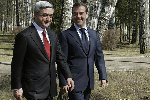 Dmitry Medvedev with Serzh Sargsyan during Russian-Armenian talks [1]